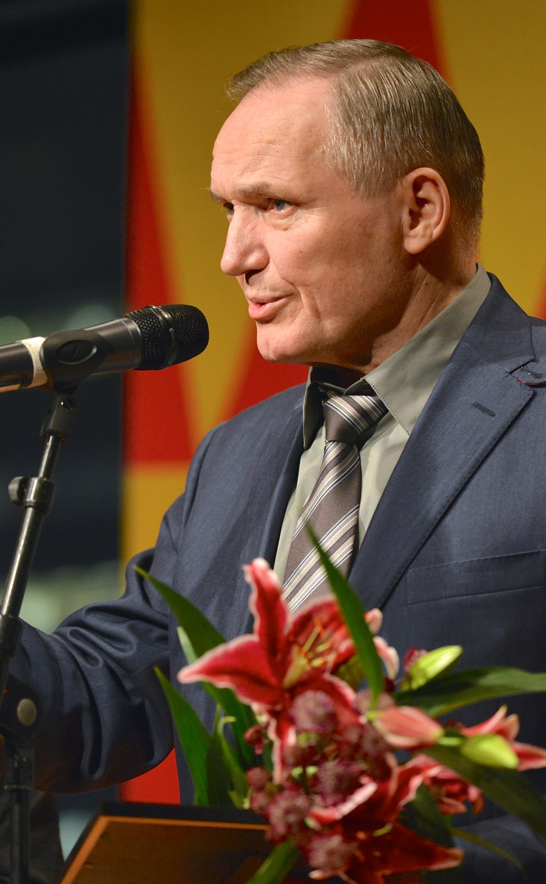 Uladzimir Niakliaew February 25, 2014 in Stockholm when he receives Tucholsky Prize by Swedish PEN.